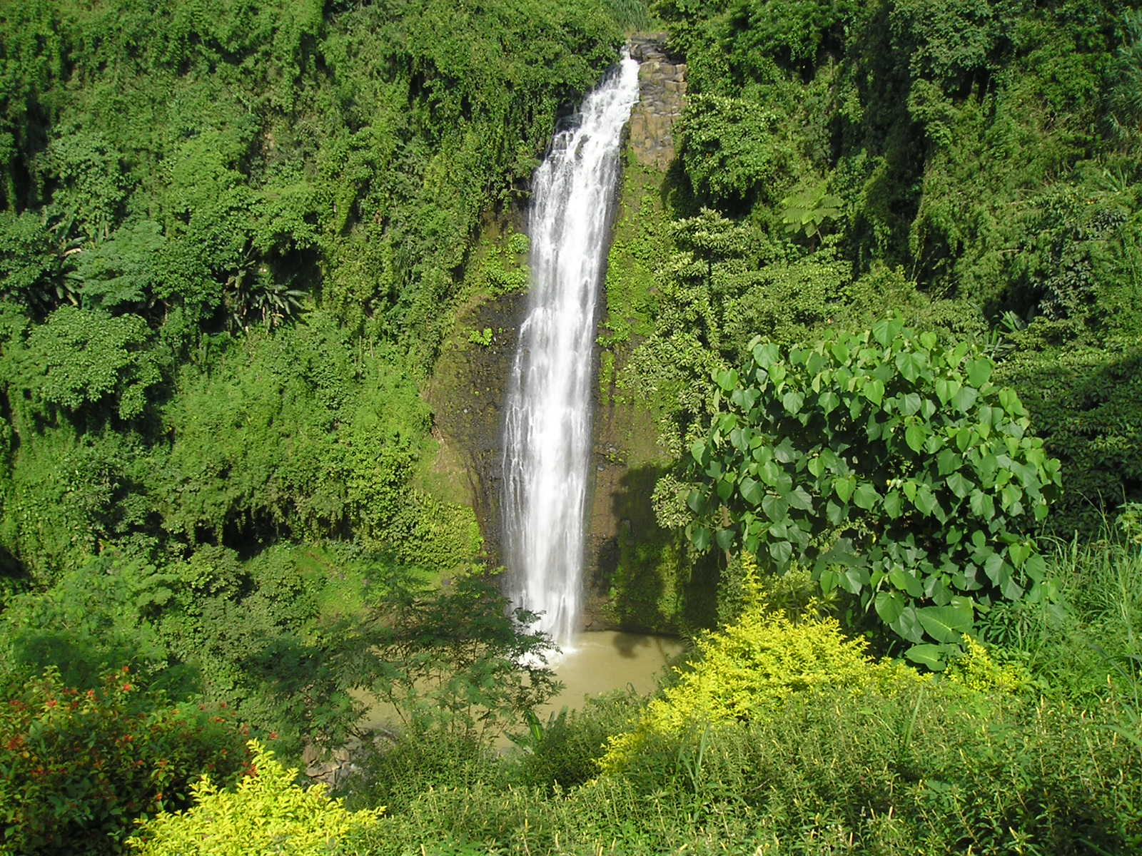 Alalum Falls, between the municipalities of Impasug-ong and Sumilao in Bukidnon, Mindanao. Tourist and travelers can easily see the falls from the bus.